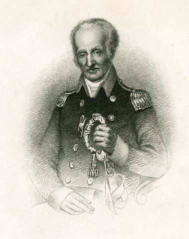 Portrait of Return J. Meigs, Sr.